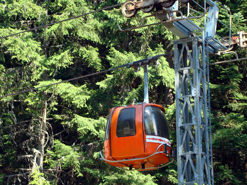 Gondola Lift from Borovets Bulgaria